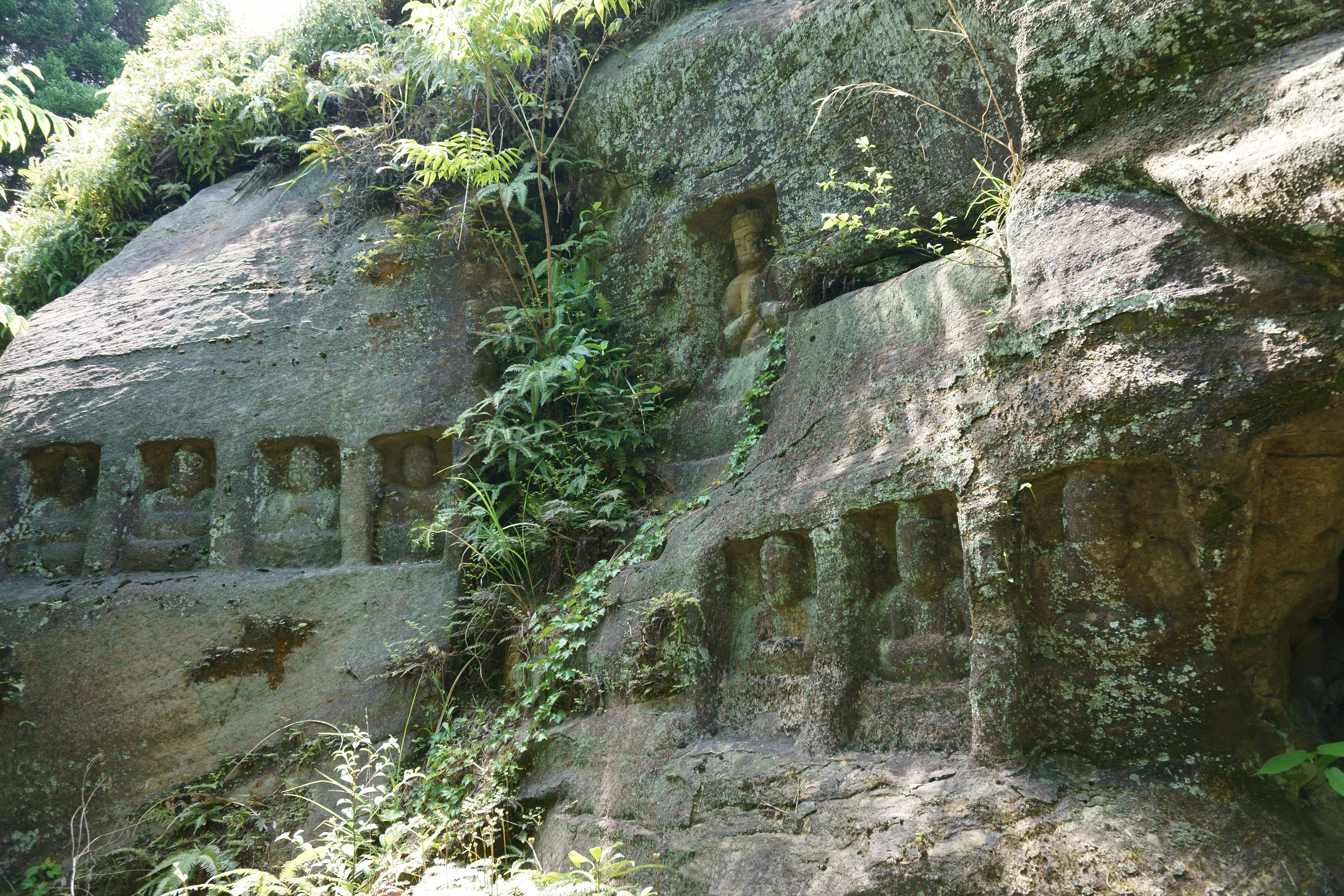 Buddha statutes in small caves of Udono Sekibutsu-gun(stone Buddha statures) in Ouchi, Karatsu city, Saga prefecture.